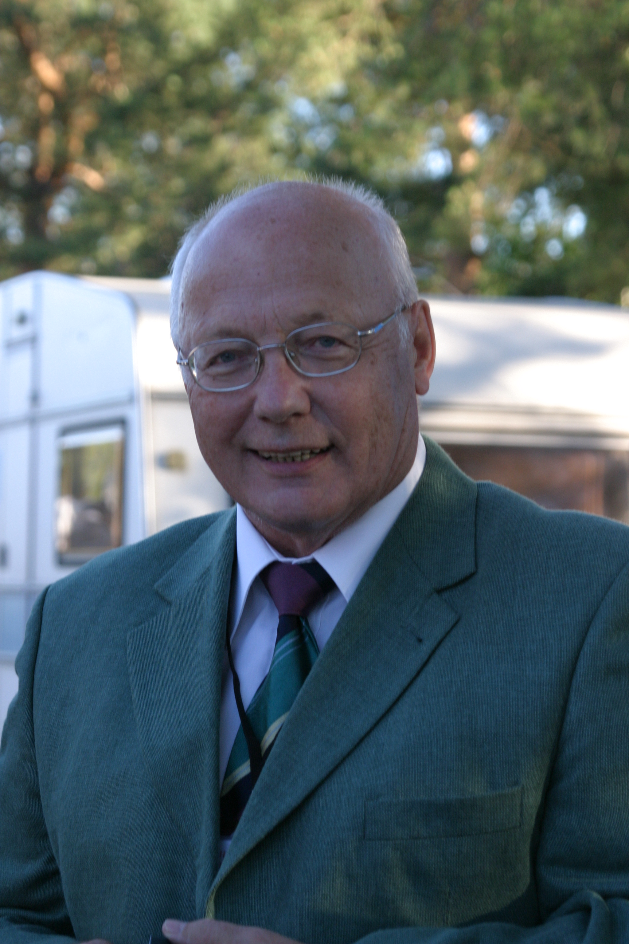 Heikki Hietamies in Vihreät Niityt music festival in the summer 2006.